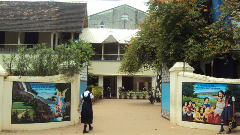 This picture was taken on 20th August,2010